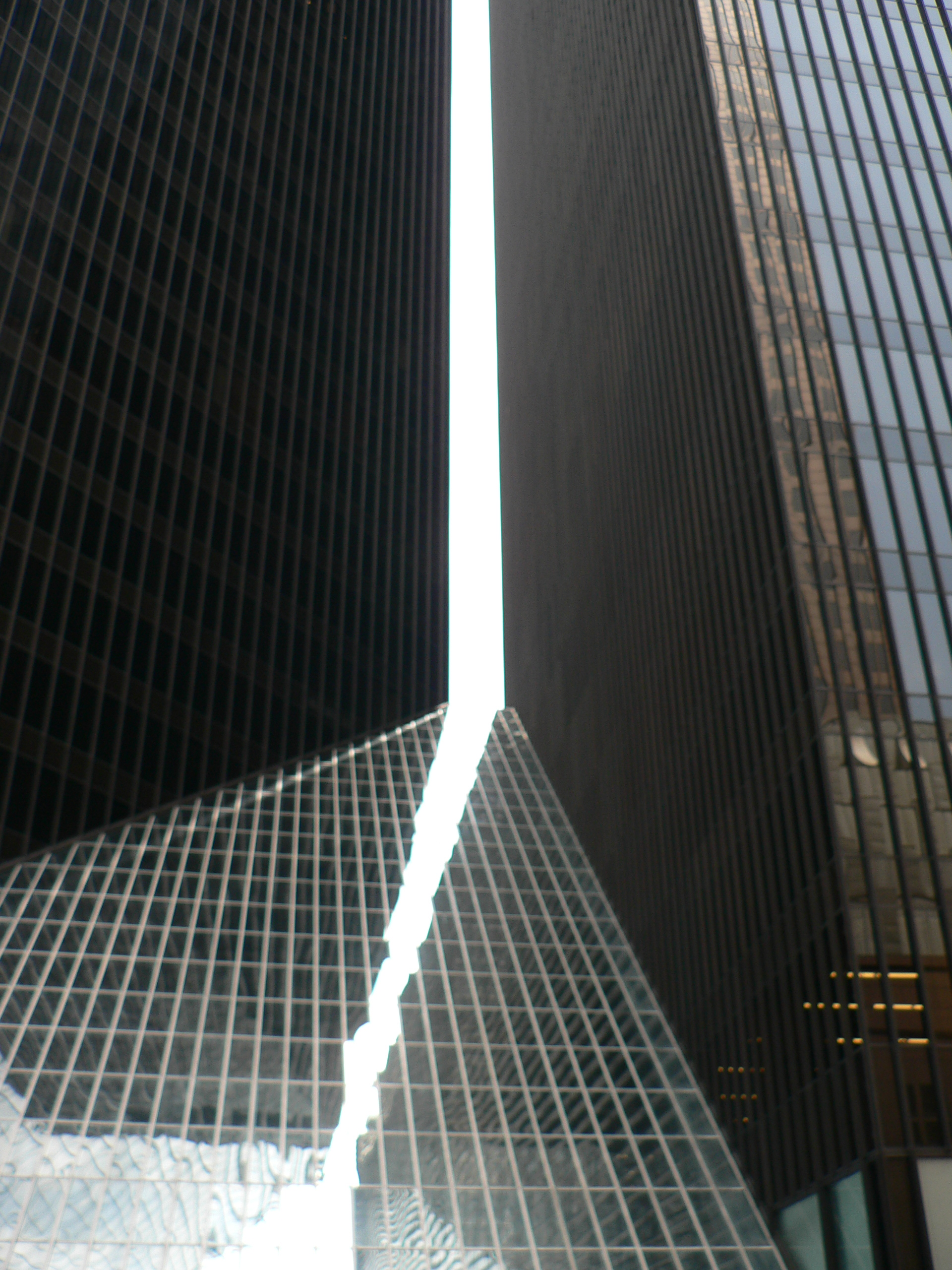 Pennzoil Place